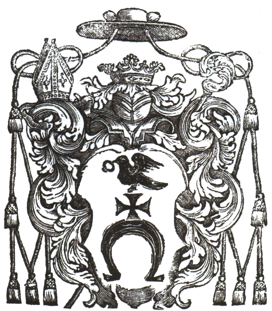 Coat of arms of Bogusław Gosiewski Bishop of Smolensk